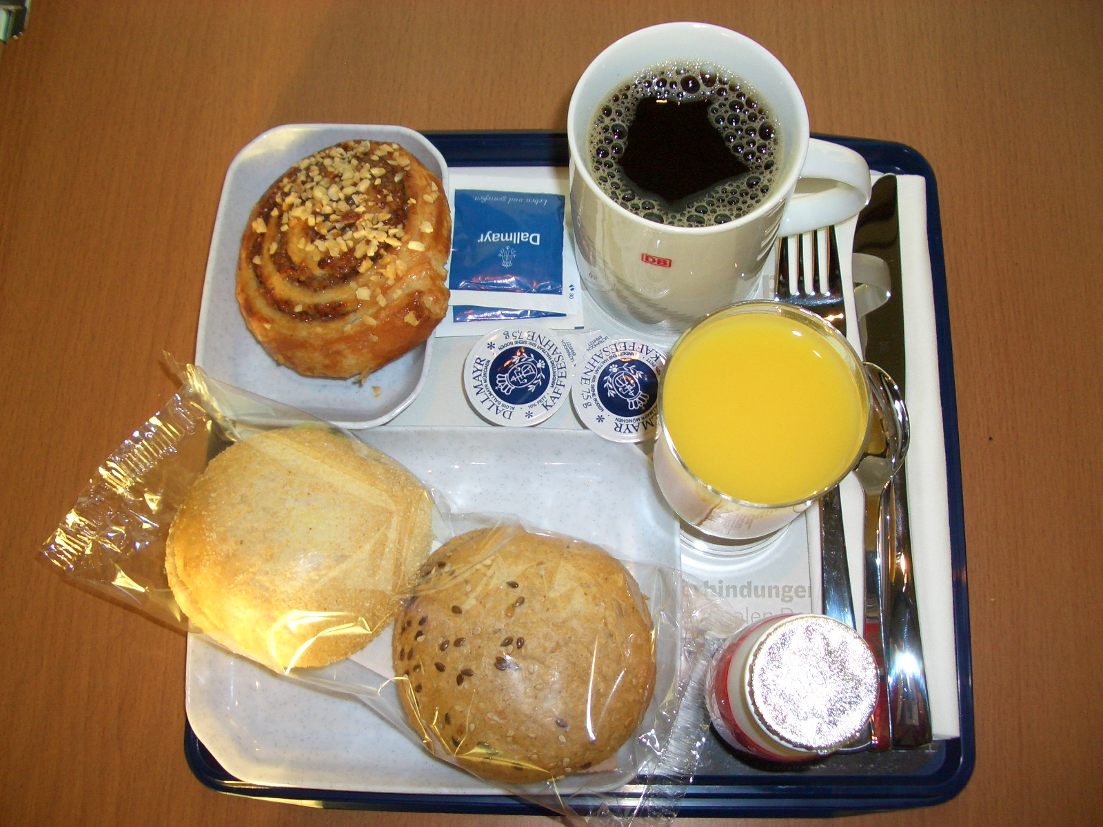 1st class breakfast on an ICE Sprinter train